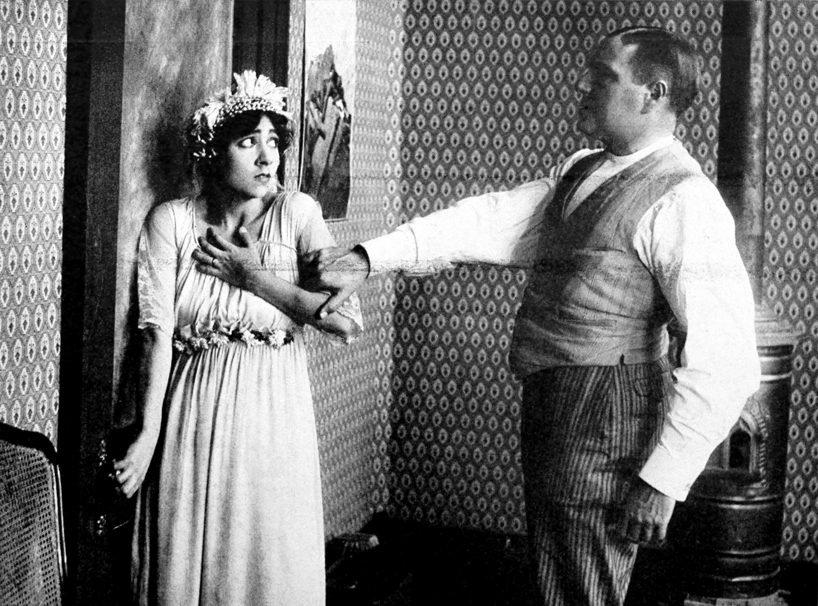 Still from the 1916 film Life's Whirlpool, a screen adaptation of Frank Norris' novel McTeague Caption reads as follows: 36. Life's Whirlpool, with Fania Marinoff and Holbrook Blinn. This was the first version of Frank Norris' novel, McTeague, directed by Barry O'Neil and produced by the World Films Co. at Fort Lee, New Jersey, in 1915.